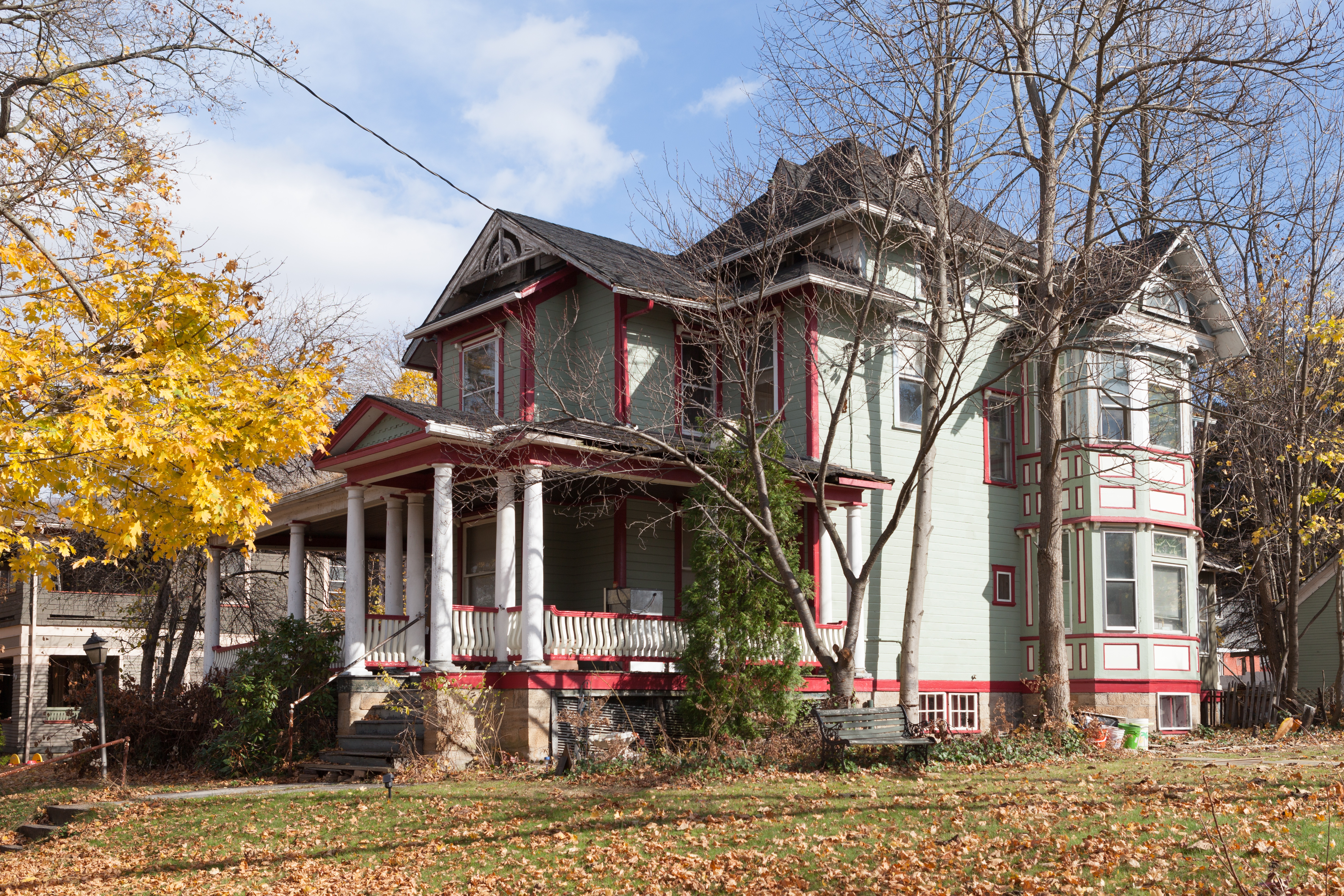 Cauffiel House, an 1865 Queen Anne style urban homestead at 412 Coleman Ave in the Moxham Historic District, Johnstown, Pennsylvania